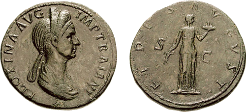 Pompeia Plotina, wife of Trajan. Augusta, circa 105-117. Æ Sestertius (28.73 gm, 7h). Struck circa 112. PLOTINA AVG IMP TRAIANI, draped bust right, hair elaborately dressed in two tiers over brow, above which is a stephane, and elaborately waved at the back, falling down her neck in plait FIDES AVGVST, S C across field, Fides standing right, holding grain ears and basket of fruits. RIC II 740 (Trajan); Strack 441; Banti 1; BMCRE 1080 (Trajan); Cohen 12.